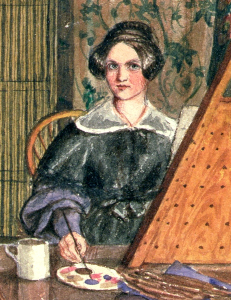 Watercolour of a interior with a woman artist.